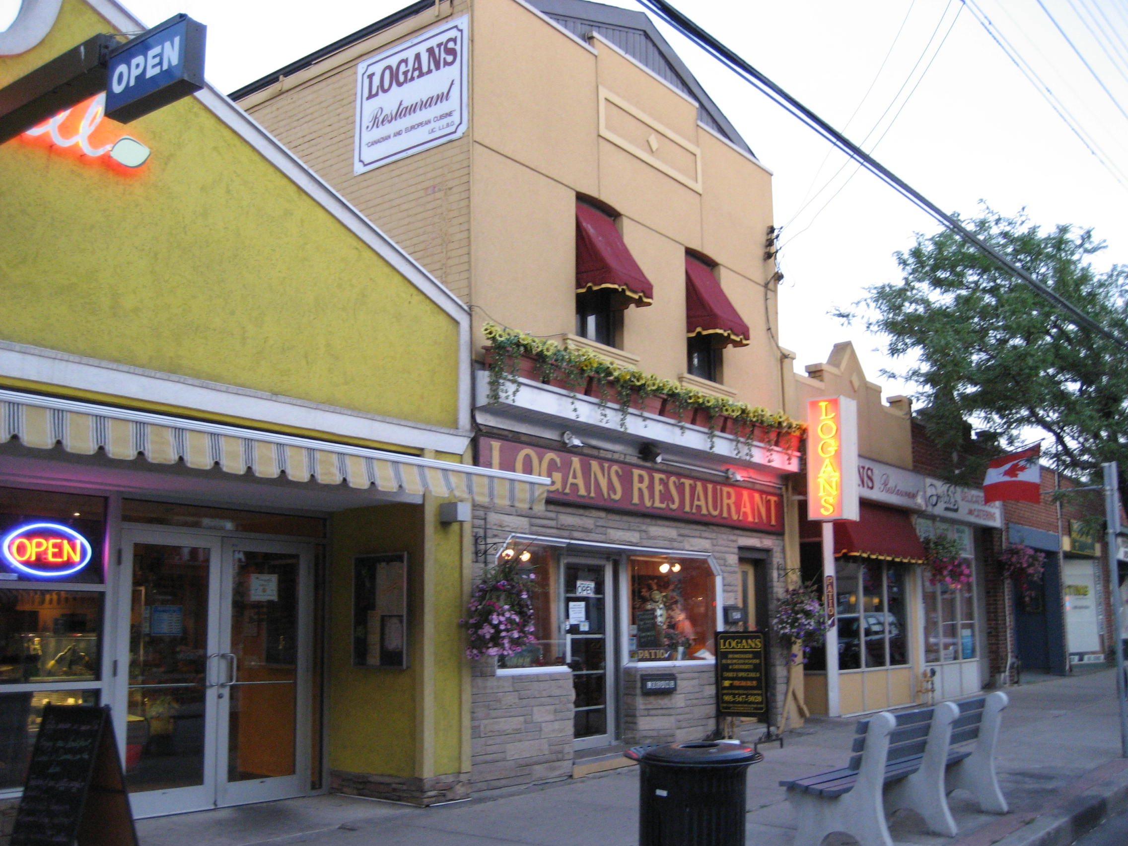 Ottawa Street North, shopping district, Hamilton, Ontario; also known as the "Textile District."